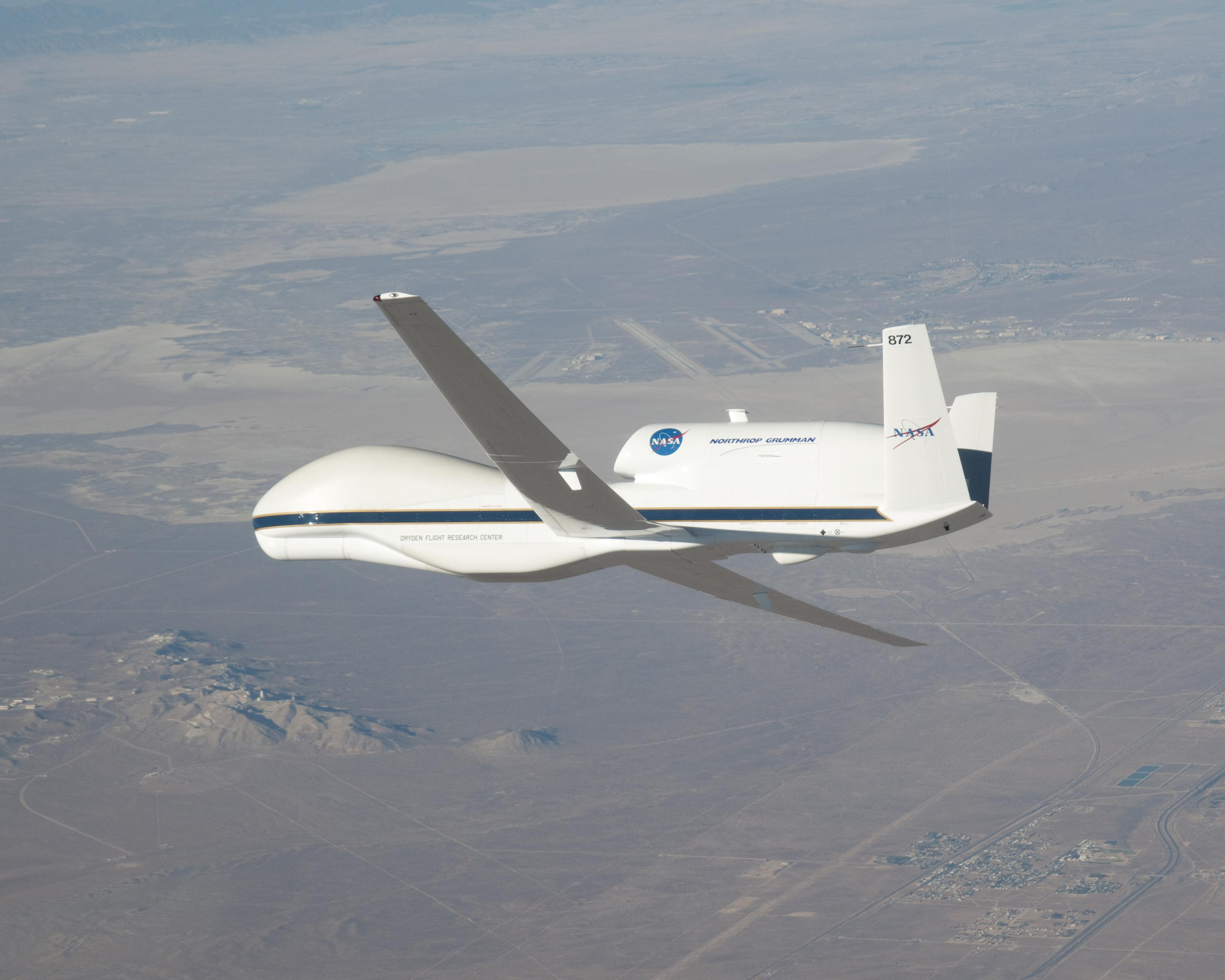 NASA’s Global Hawk, a remote-controlled airplane that can fly for up to 30 hours at altitudes up to 65,000 feet.